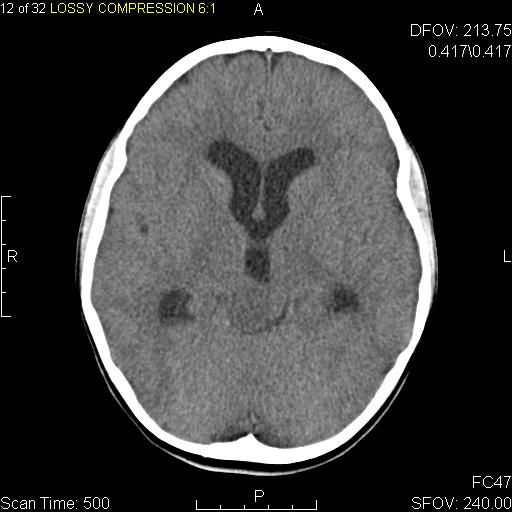 Axial non contrast CT scan image of a young adult with a presumed tectal plate glioma.